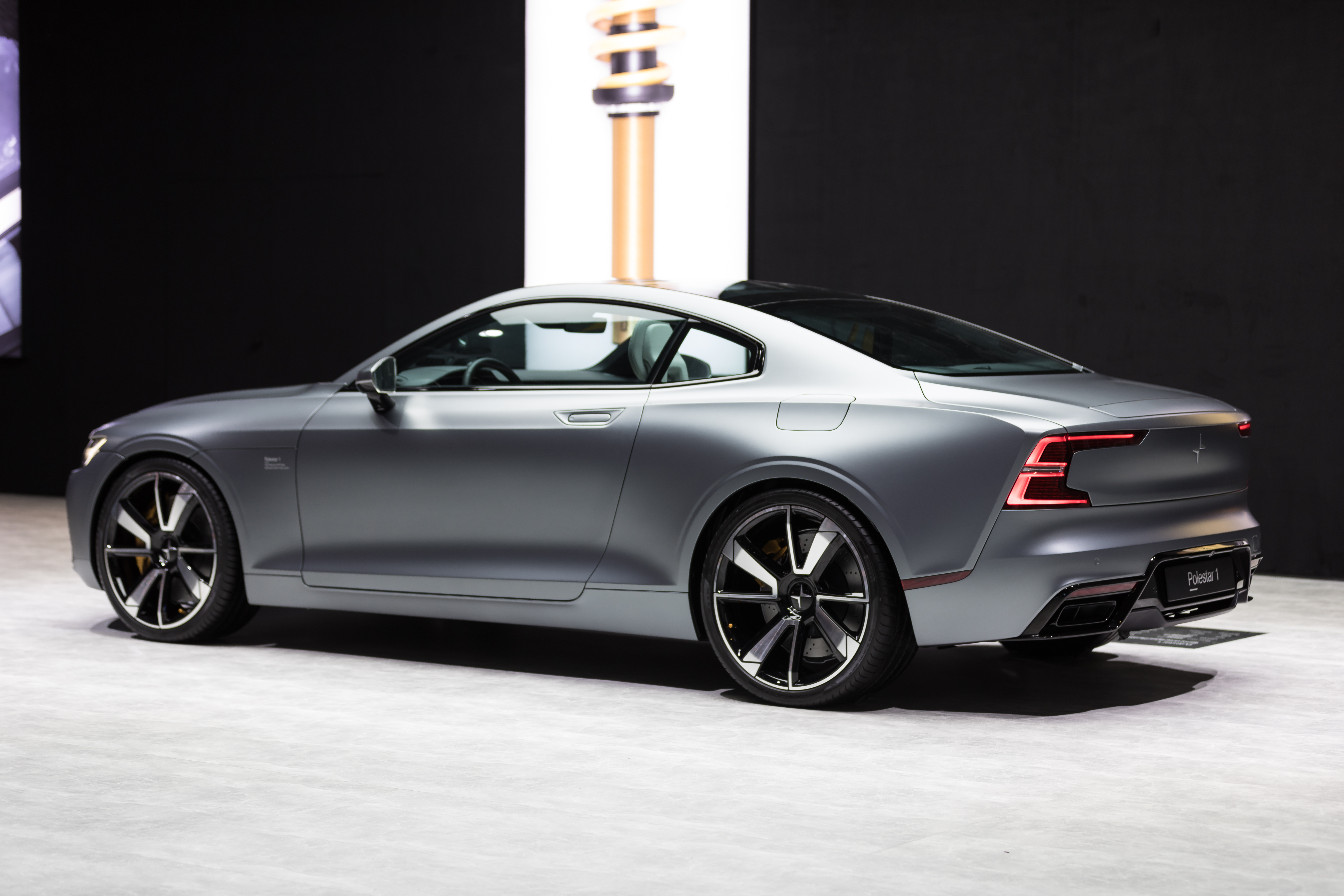 Geneva International Motor Show 2018, Polestar 1